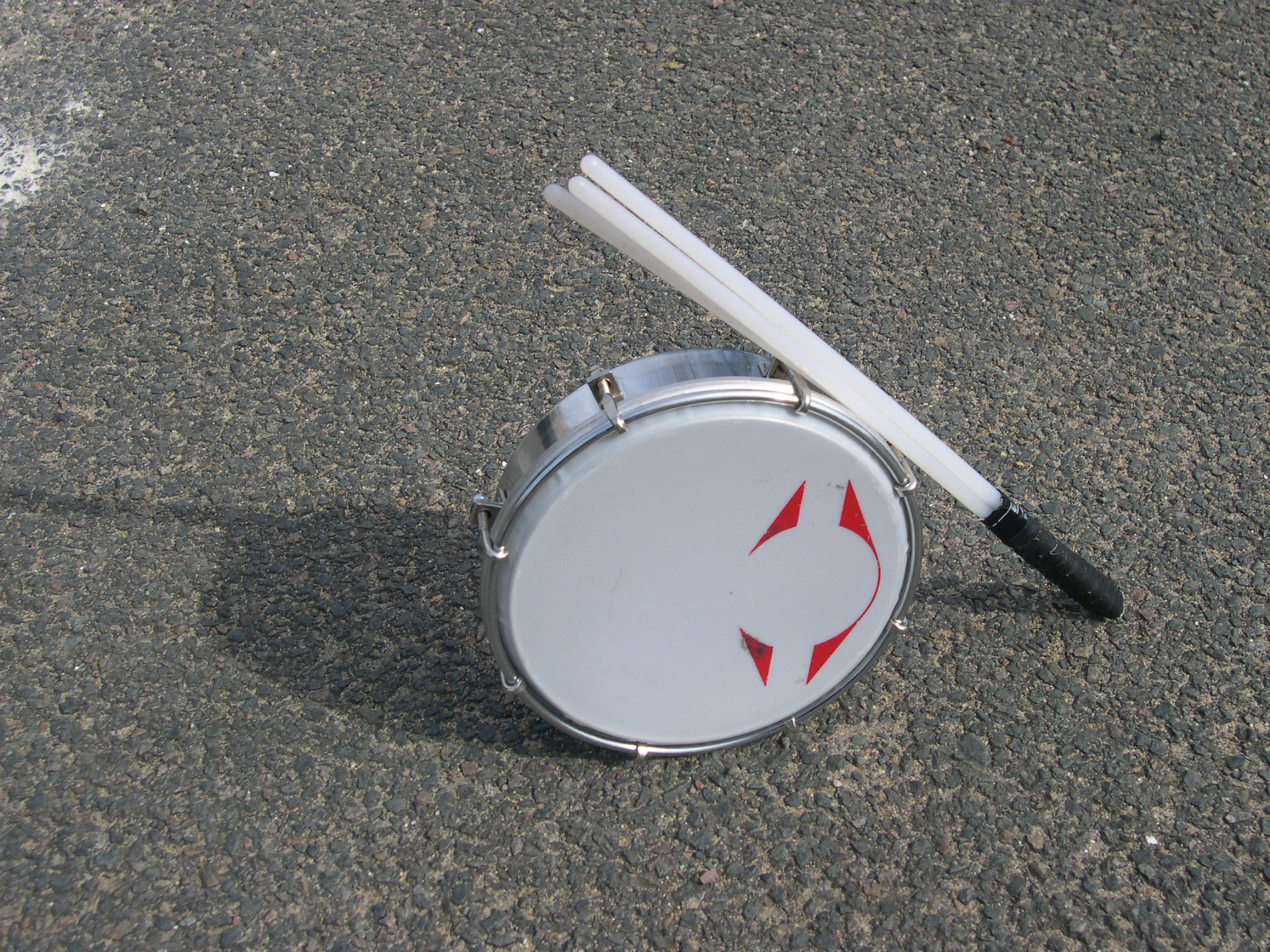 Tamborim with its stick.